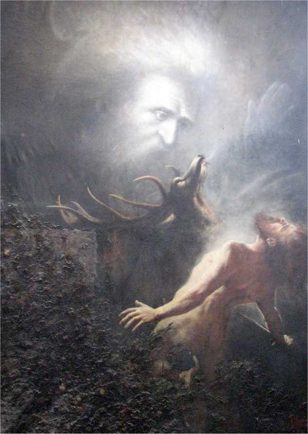 Painting Du sollst nicht töten (Thou shalt not kill) from German painter Karl Wilhelm Diefenbach (1851-1913)